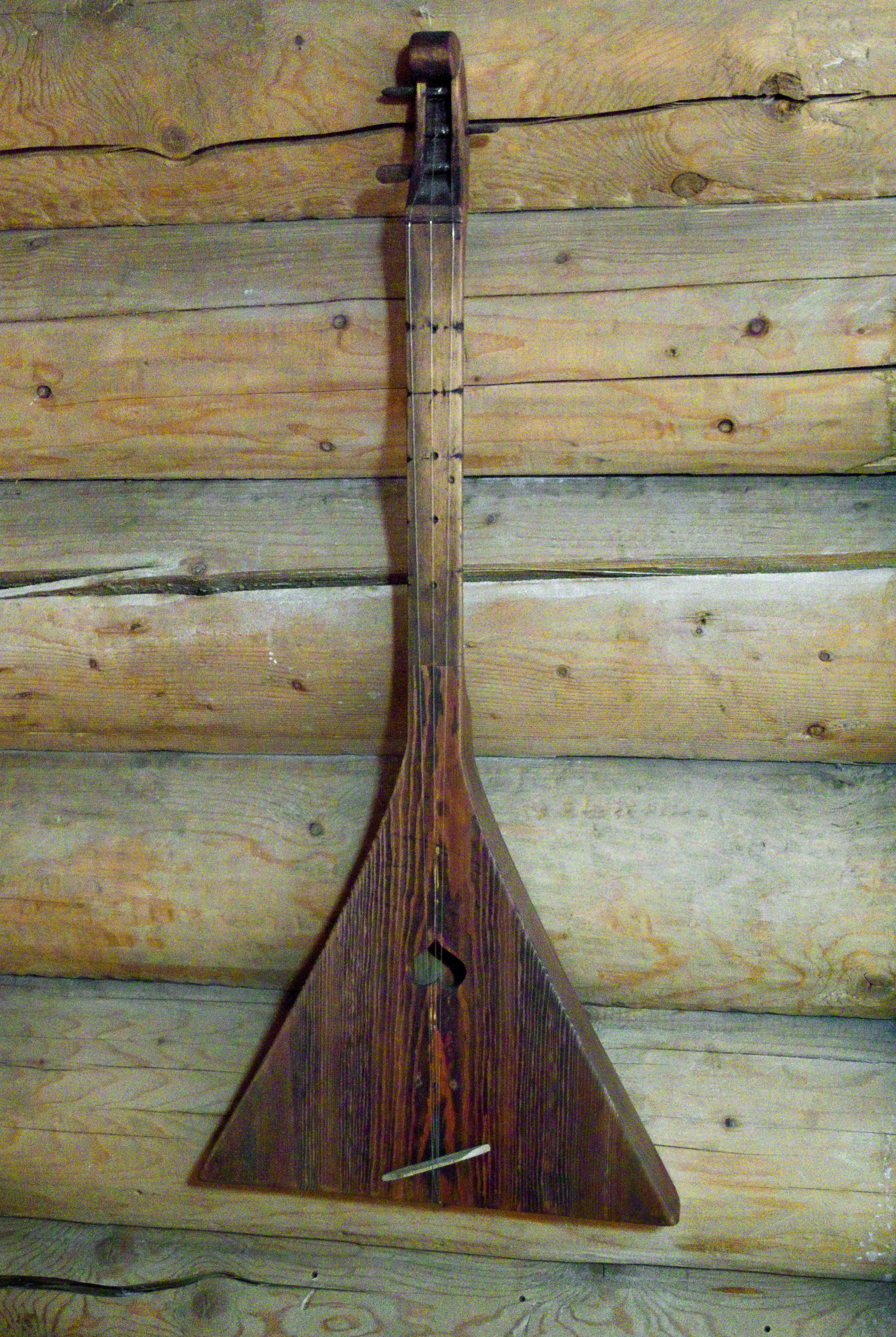 A 19th century amateur-made balalaika from the Yeniseysk Governorate. The Krasnoyarsk Krai museum.